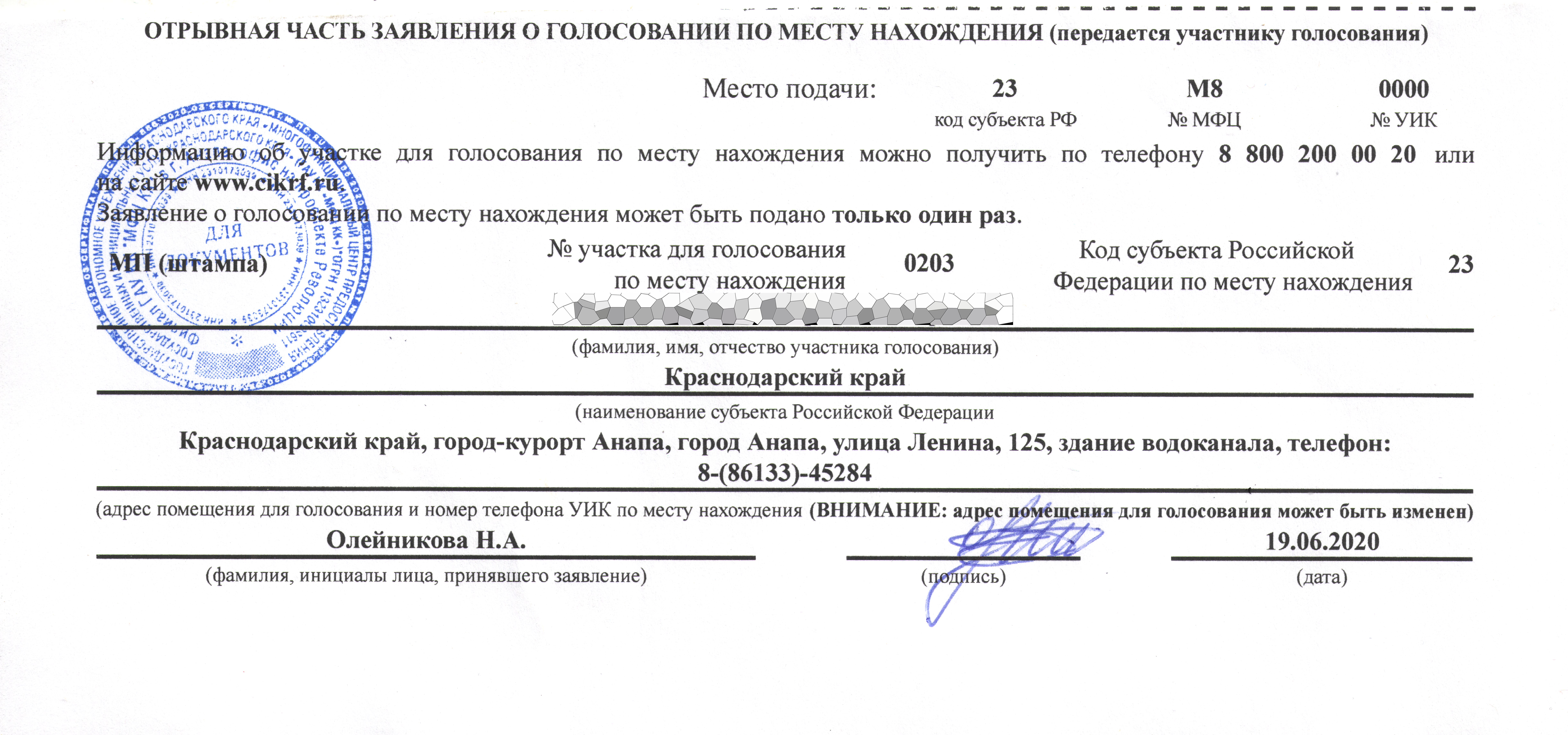 A slip for voting at a place of the person's residence in Krasnodar Krai during Voting about Constinution 2020 in Russia. Individual who has been issued this slip has decided to remain anonymous, and thus the name is mazaic-ified.